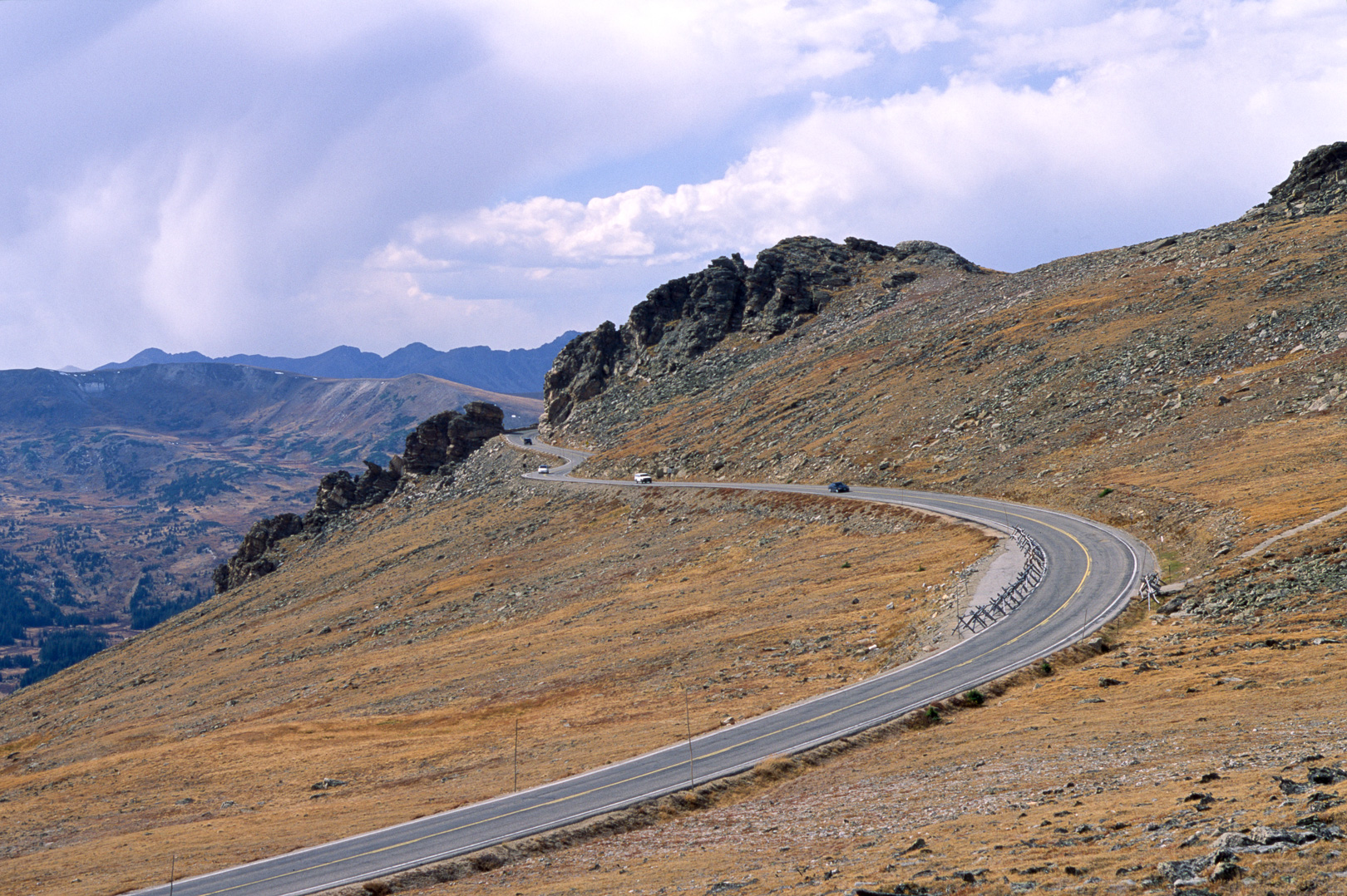 Trail Ridge Road, Rocky Mountain National Park, Rock Cut.